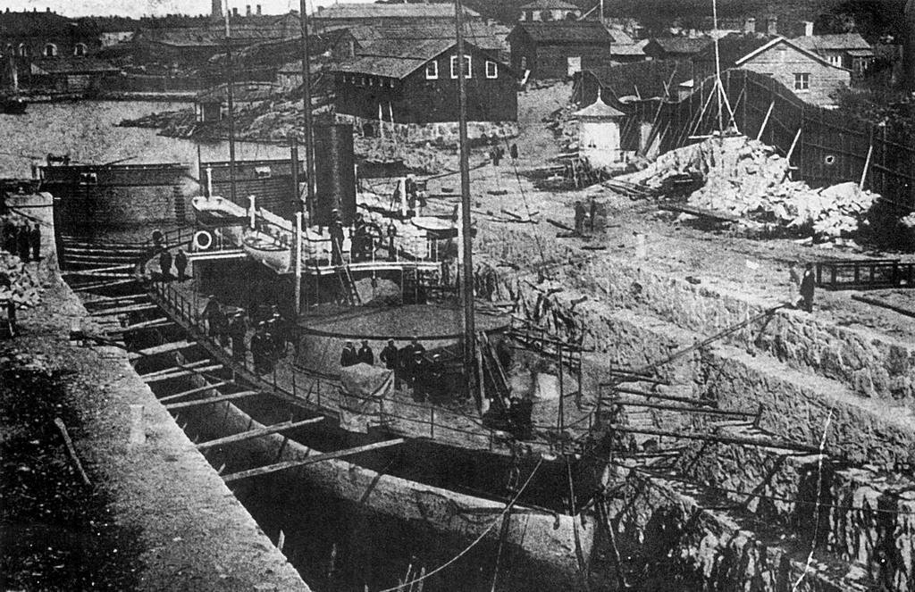 Twin turret armoured monitor Rusalka at Helsingfors Skeppsdocka in Helsinki, Grand Duchy of Finland in 1890.